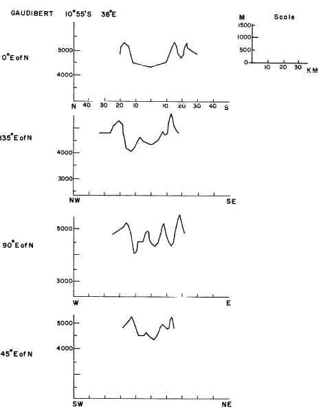 Gaudibert crater cross section